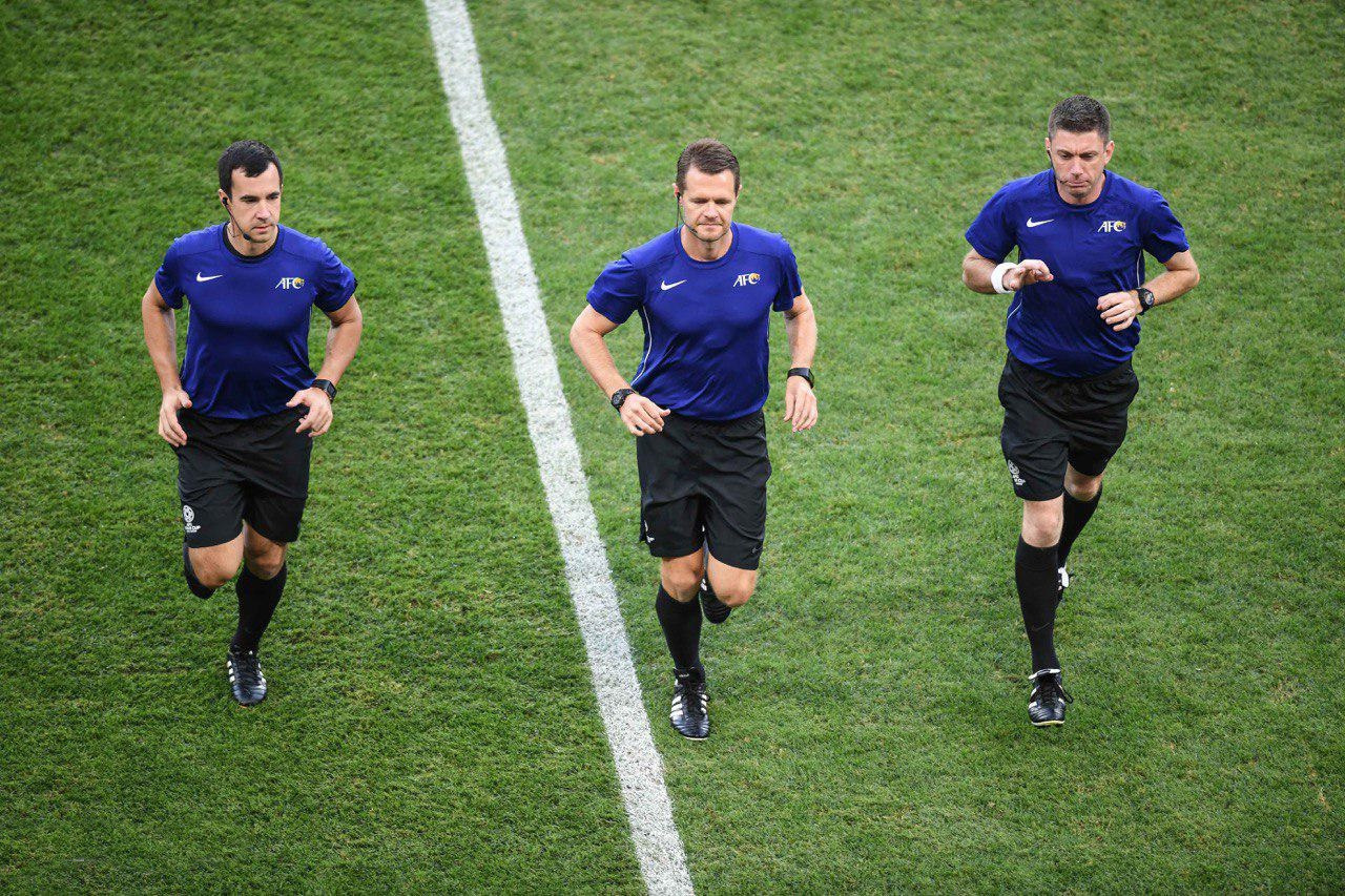 Iran-Japan, 2019 AFC Asian Cup